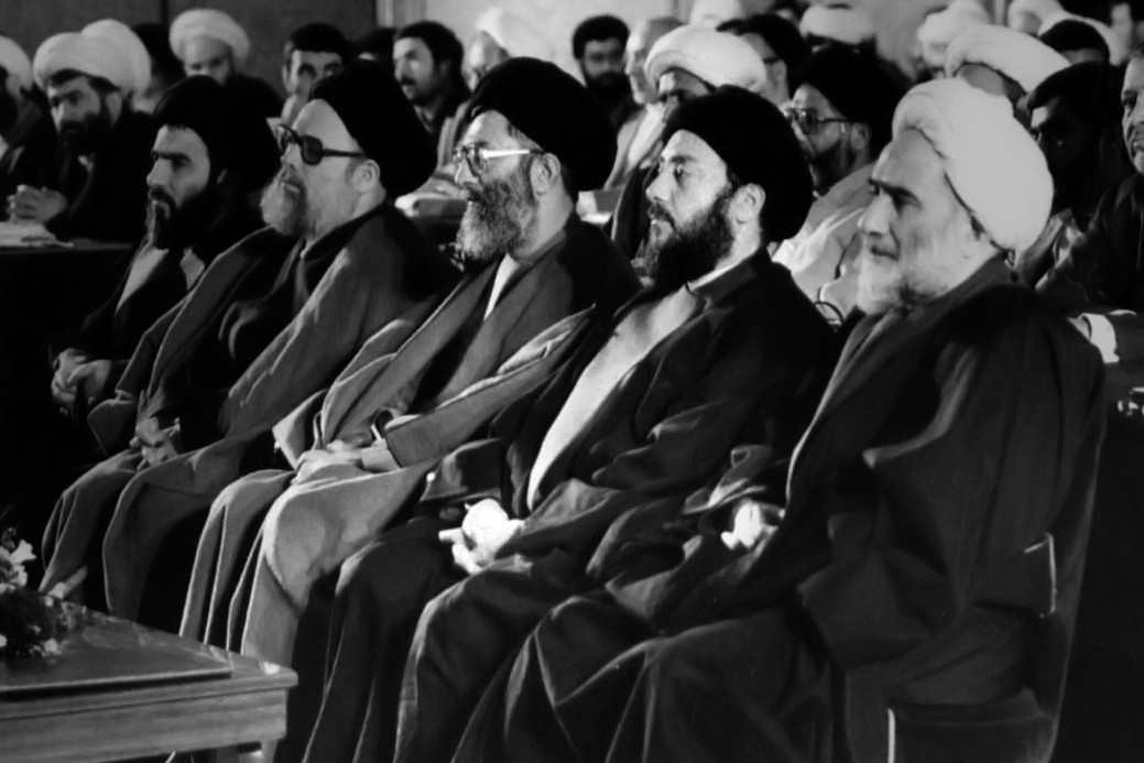 Mahmoud Hashemi Shahroudi